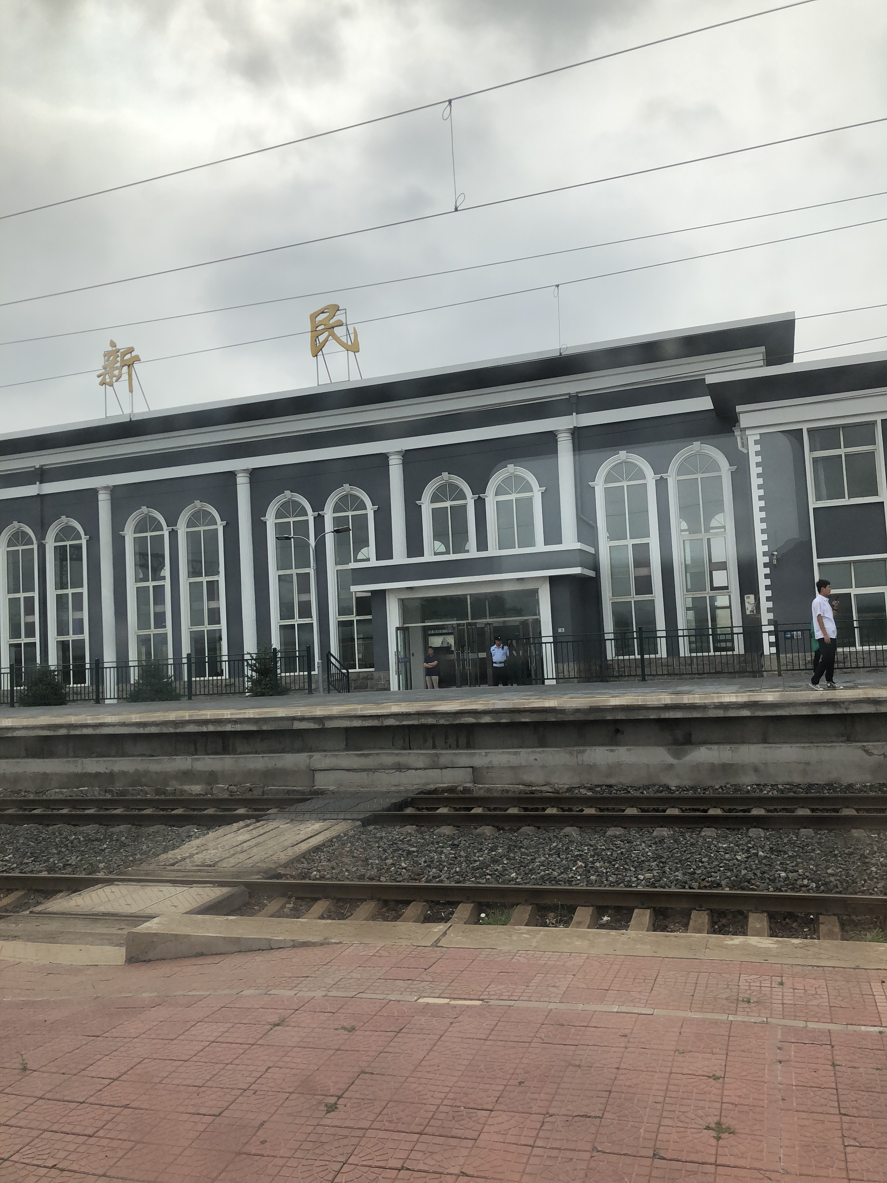 Xinmin Railway Station